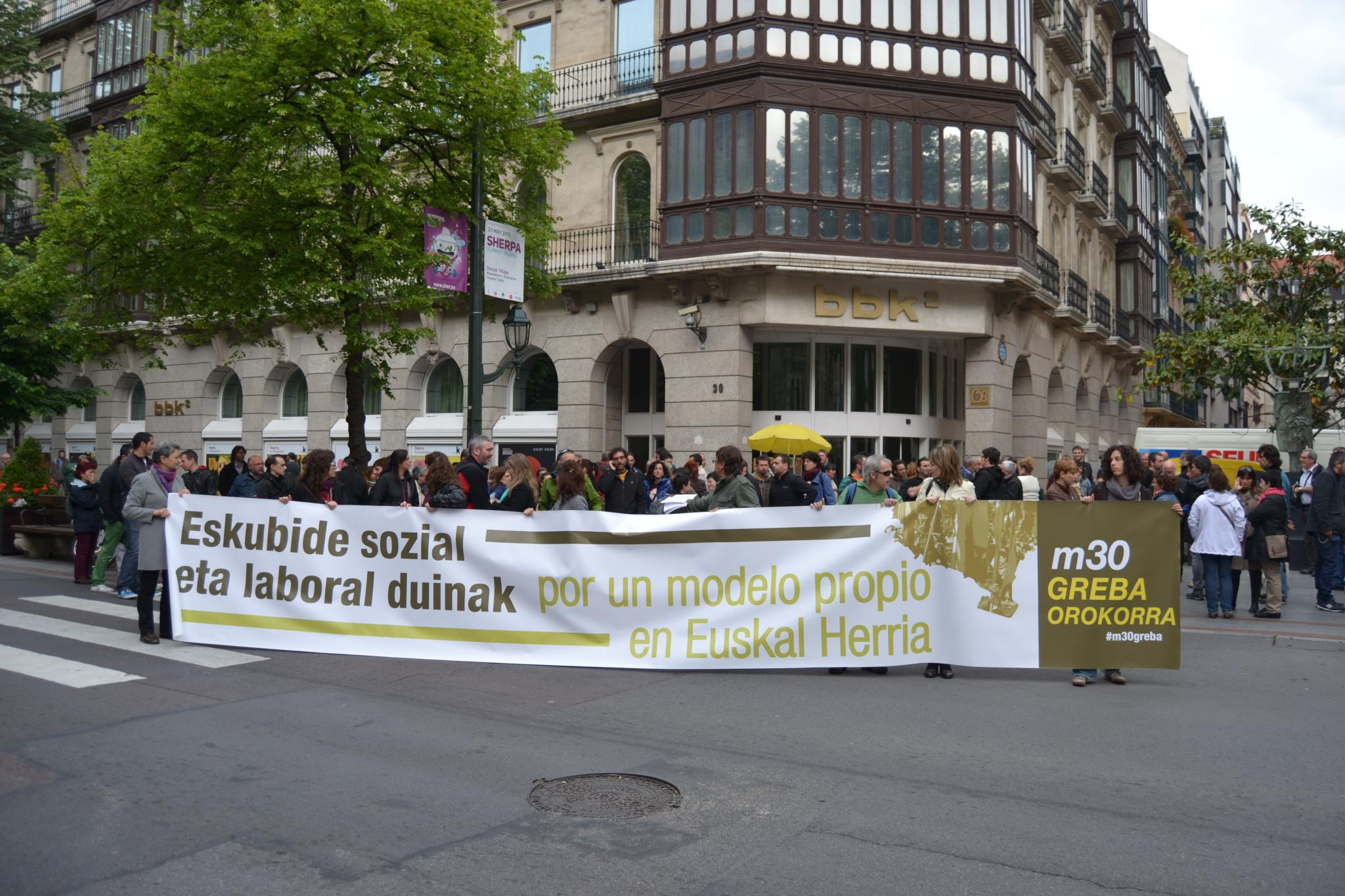 Calling for strike on may 30 in Bilbo.